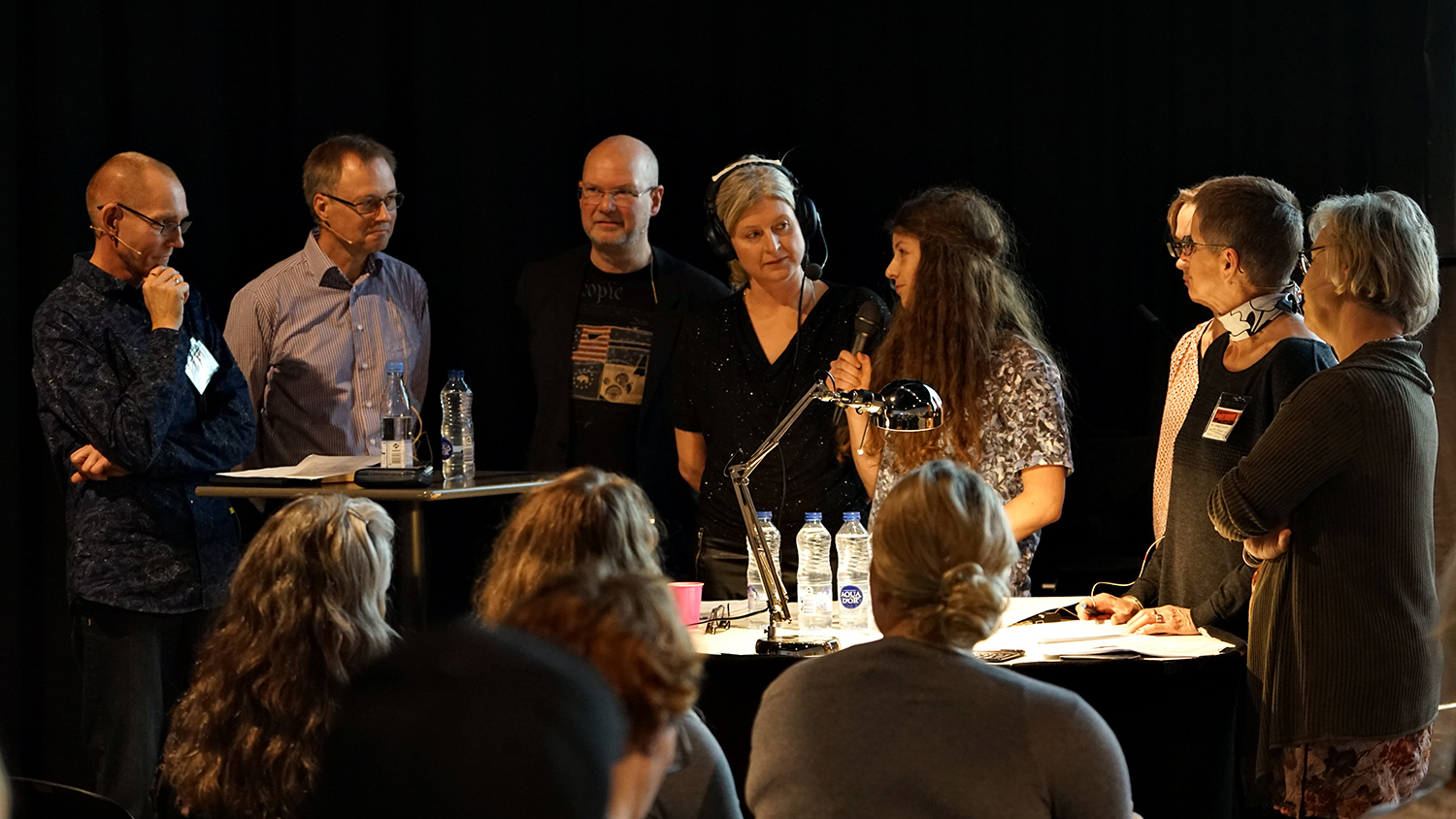 Sproglaboratoriet - Danish language programme on DR-Radio, broadcasted live at the Copenhagen Book Fair "BogForum 2015", Copenhagen, Denmark (from left to right Henrik Lorentzen, Lars Trap-Jensen, Michael Ejstrup, Helle Solvang (programme host), an unknown guest, Ida Elisabeth Mørch (hidden), Ebba Hjorth and Sabine Kirchmeier-Andersen)